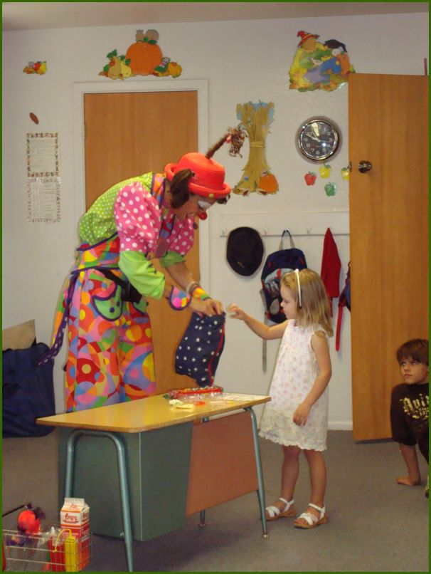 Tradition helping with a person and saying "thank you."Kiswahili: Tradition som hjälper till med en person och säger "tack".